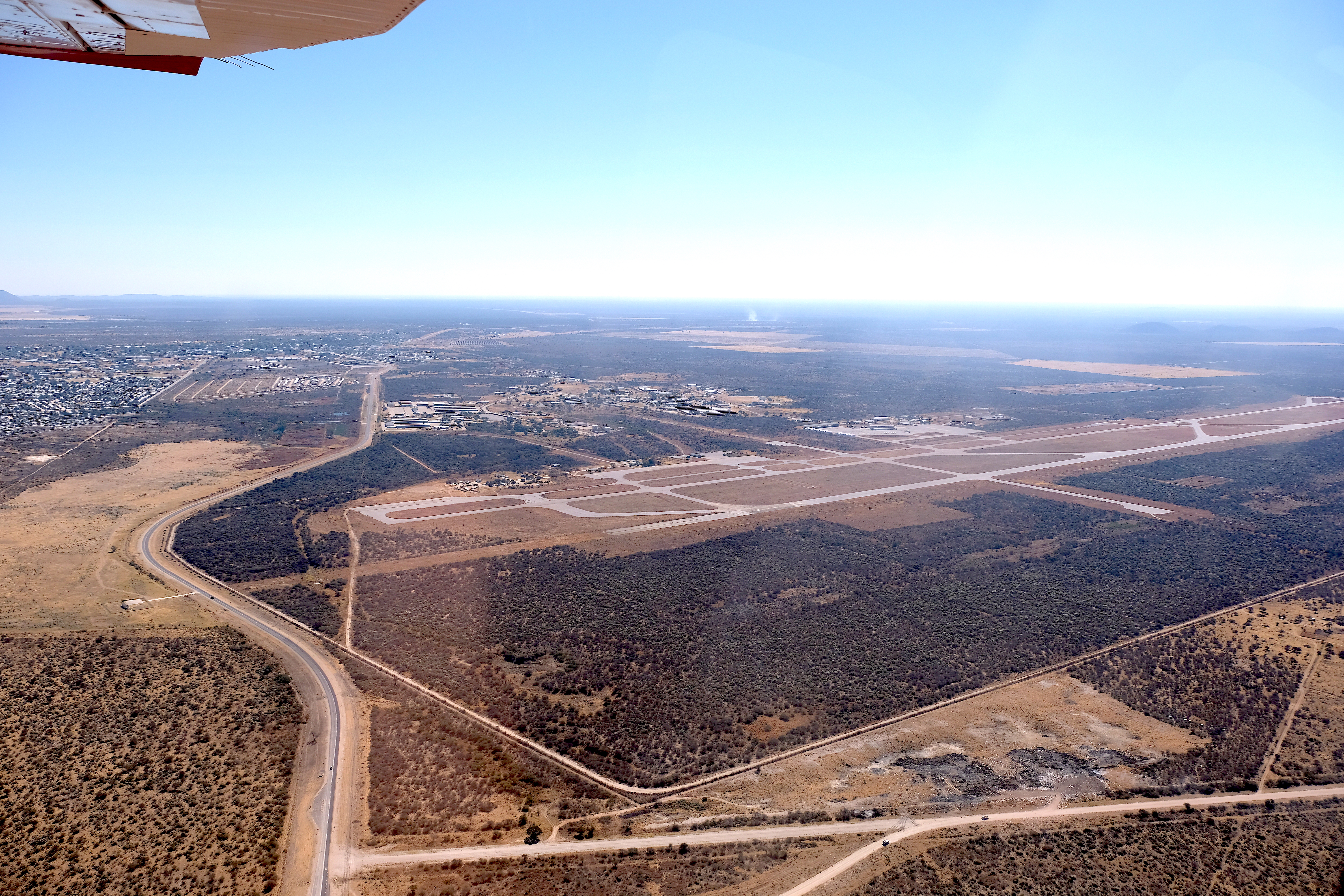 Grootfontein Airport (2018)